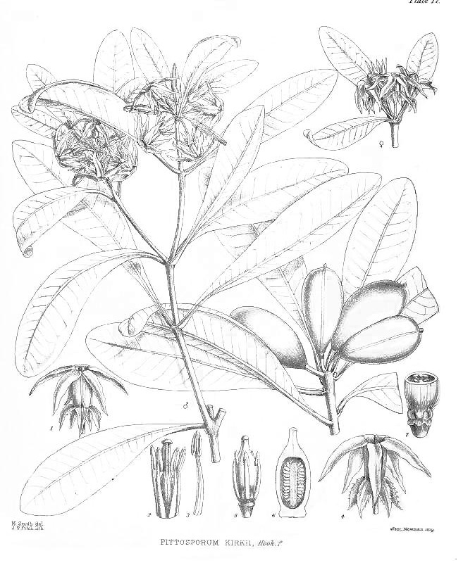 1: male flower; 2: stamens and rudimentary pistil; 3: single stamen; 4: female flower; 5: pistil with rudimentary stamens; 6: longitudinal section of a pistil; 7: cross-section of pistil (all enlarged)